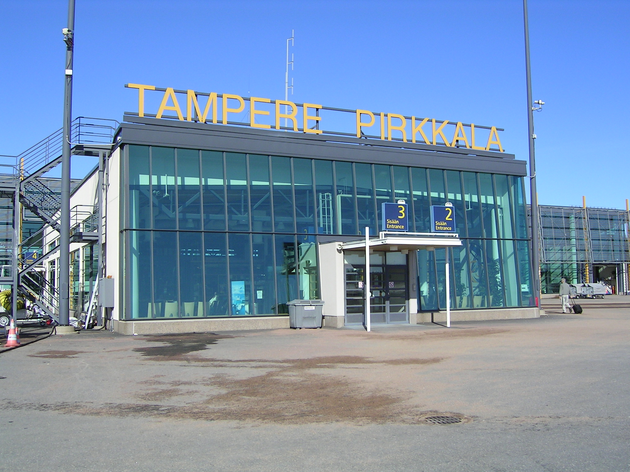 Tampere-Pirkkala Airport Terminal 1 building, Finland, as seen from the runway side.